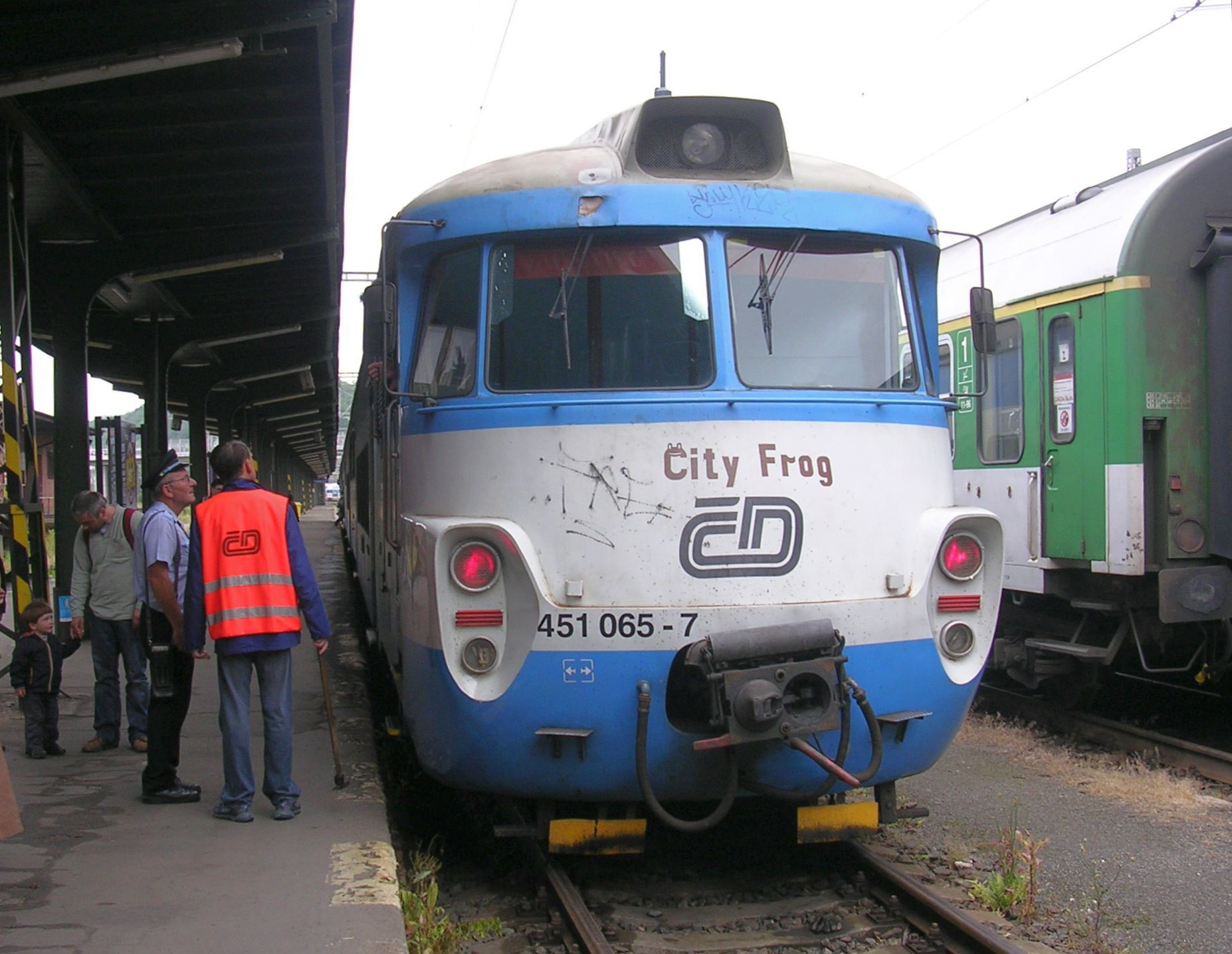 Praha Masarykovo nádraží, train station in Prague, the Czech Republic. A train of class 451.